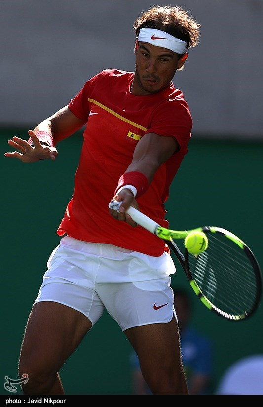 Tennis at the 2016 Summer Olympics